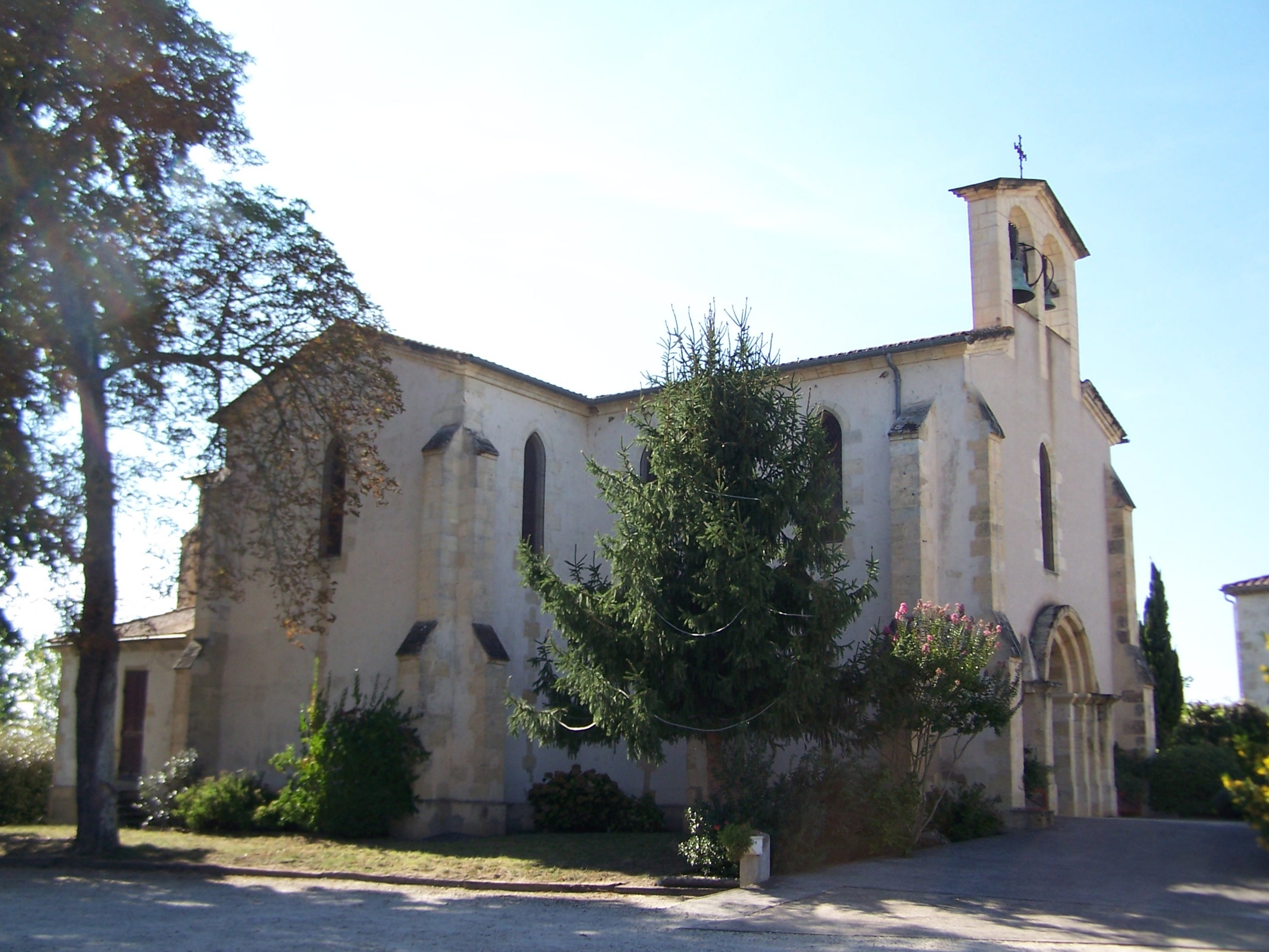 Saint Paul church of Gaujac, (Lot-et-Garonne, France)